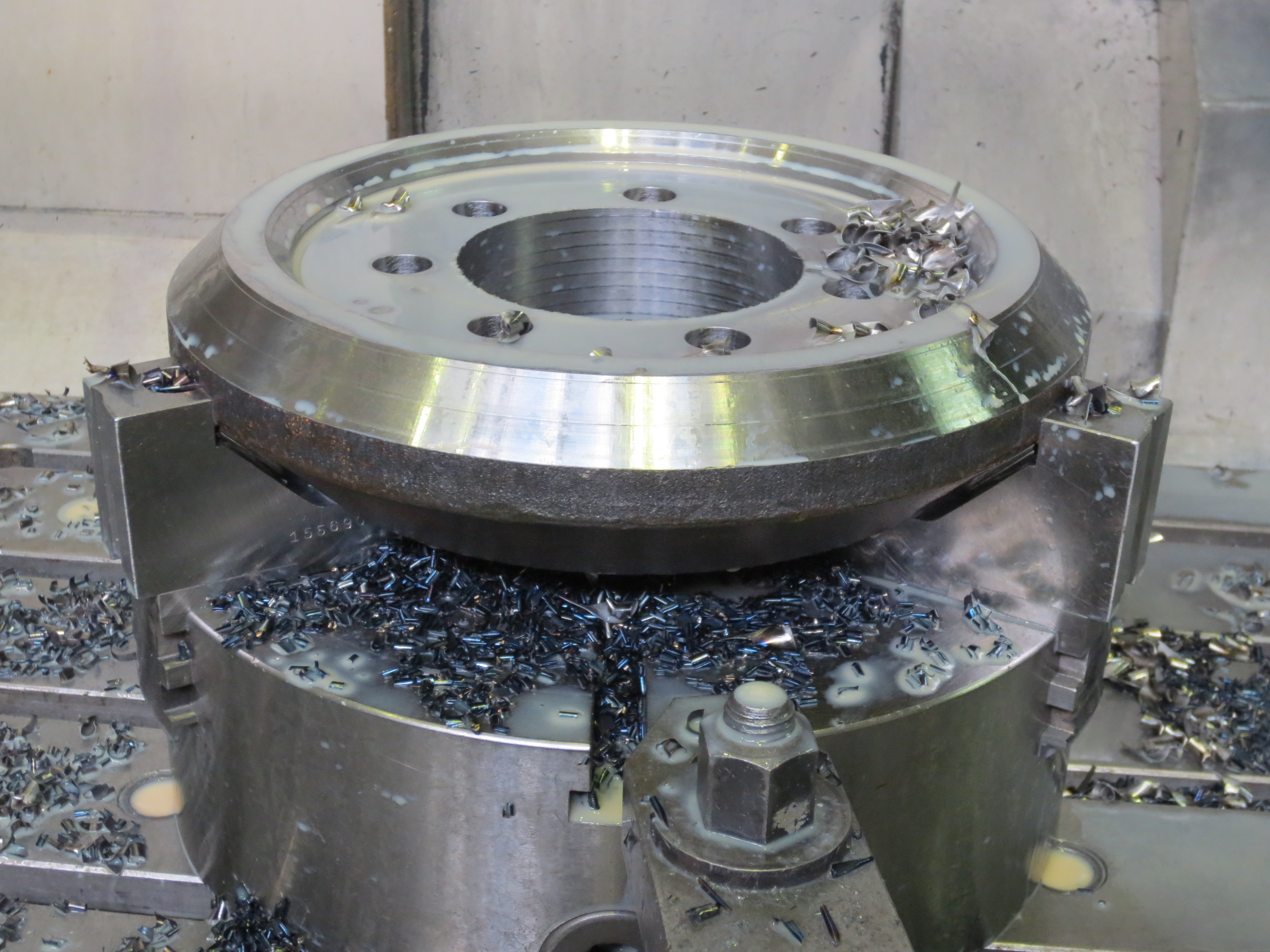 STEP-NC crown wheel test part after milling and drilling operations on the first setup. T24 STEP Manufacturing Meeting and STEP-NC Machining Accuracy Demonstration at KTH, held in conjunction with the ISO TC184/SC4 Meeting in Stockholm, June 11-15, 2012.